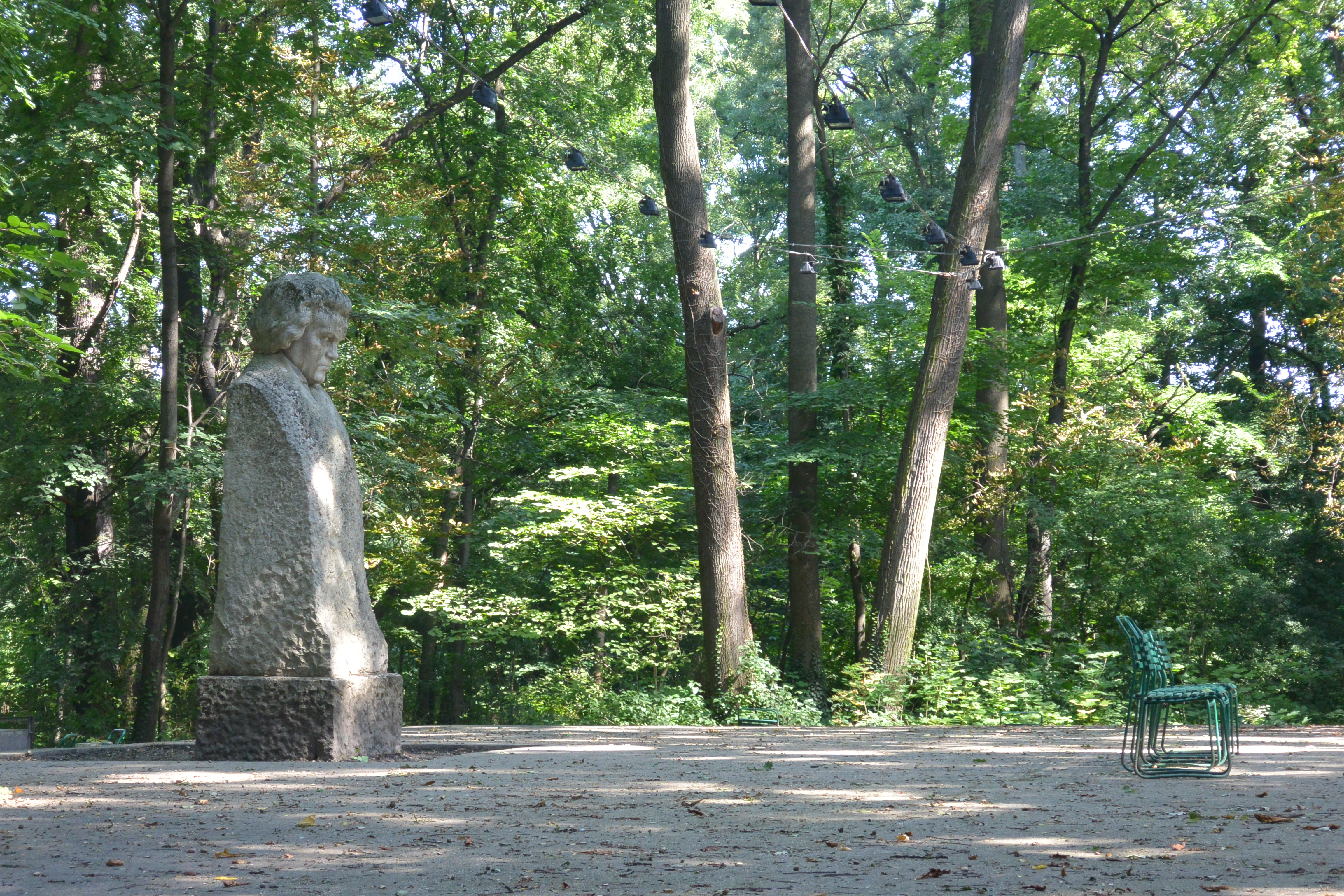 Statue of Beethoven in Martonvásár, Hungary